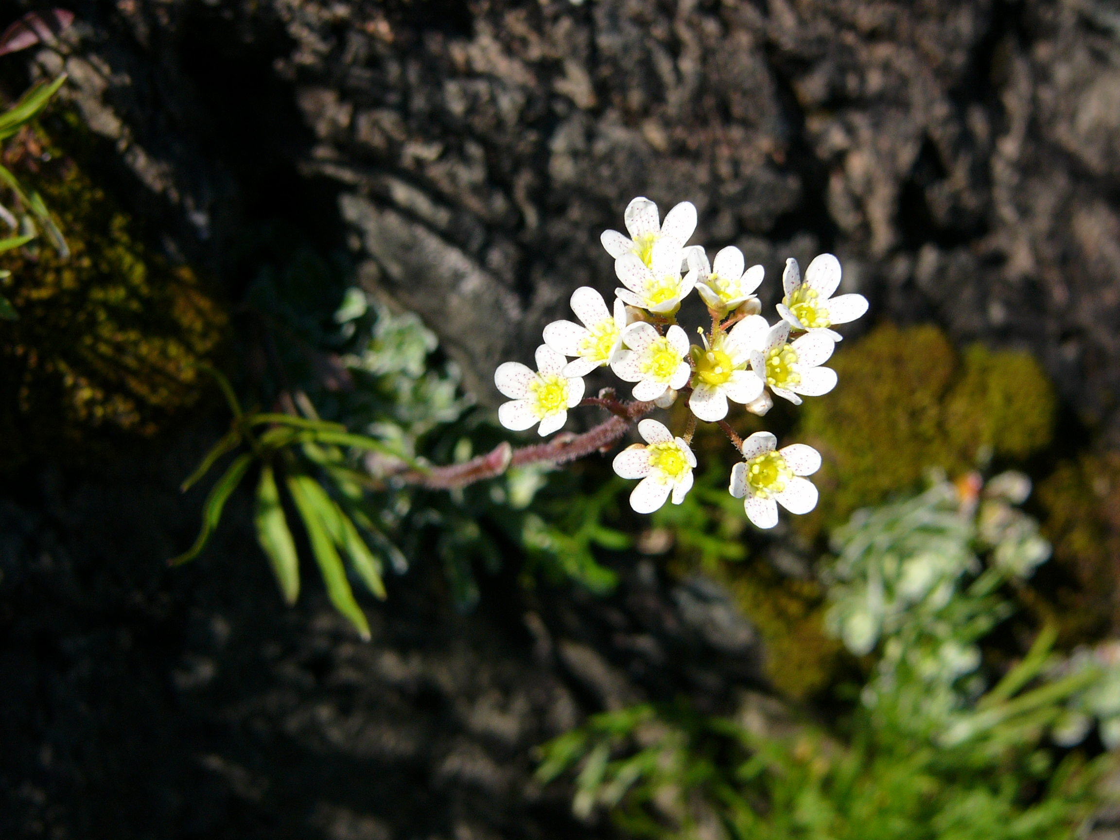 Saxifraga paniculata, growing at Williams Point in Slate Islands, Ontario, Canada